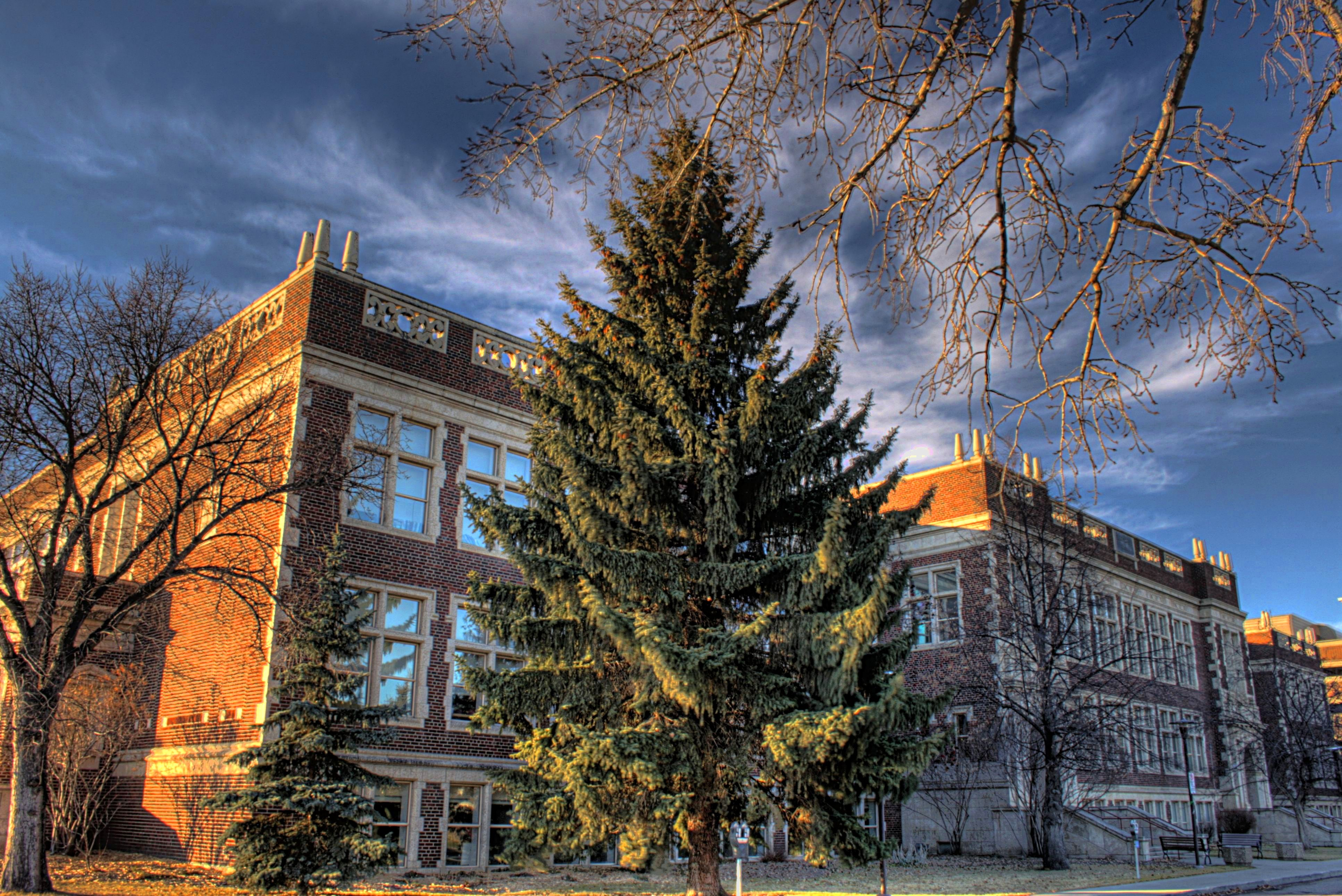 Corbett Hall on the north campus of the University of Alberta in Edmonton, Alberta, Canada.